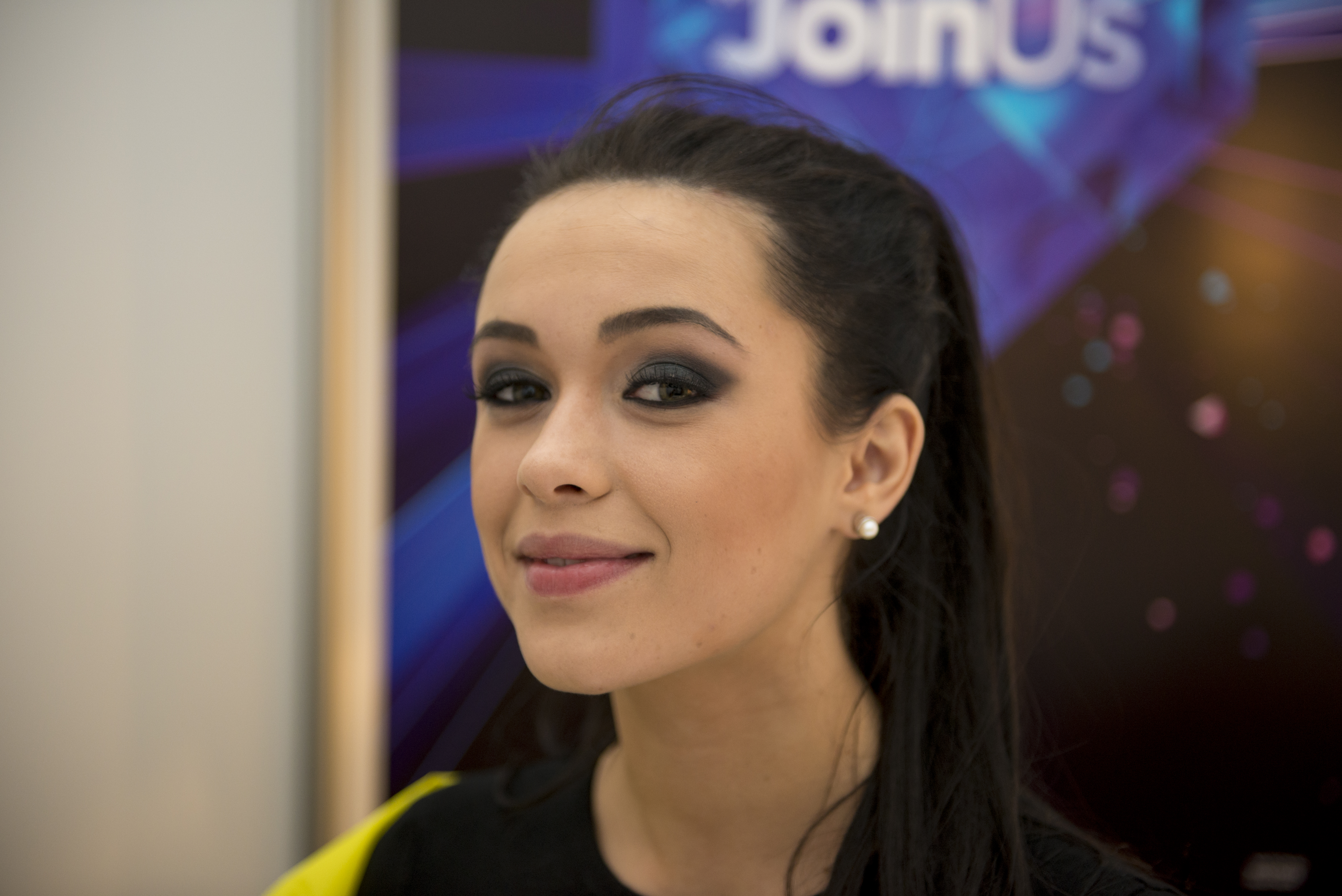 Mariya Yaremchuk at a Meet & Greet during the Eurovision Song Contest 2014 Copenhagen. (Help translate this text)